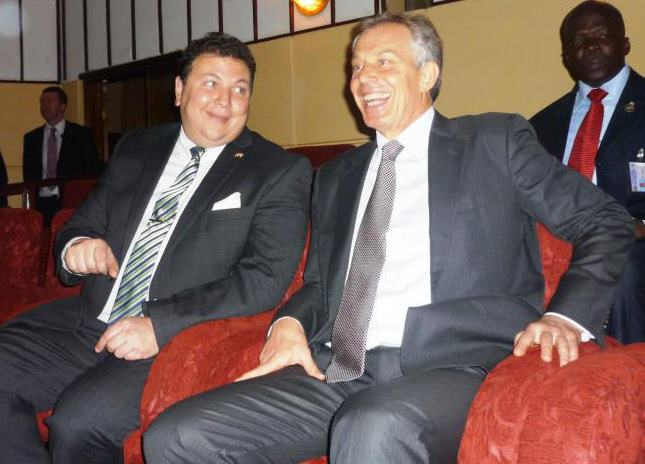 Ambassador Maher El-Adawy with former British Prime Minister Tony Blair in Liberia 2012.